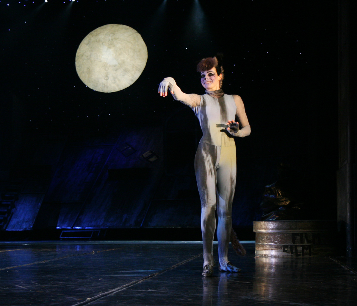 Paulina Andrzejewska as Kocik Le Miau in the musical "Cats", Roma Musical Theatre in Warsaw, 29 November 2007.